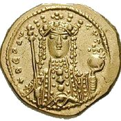 Theodora. 1055-1056 AD. AV Tetarteron Nomisma. Rev.: +QWEOW AVGOVC, crowned bust of Theodora, holding scepter & globus cruciger. DOC III 2; BN 5-10; SB 1838.